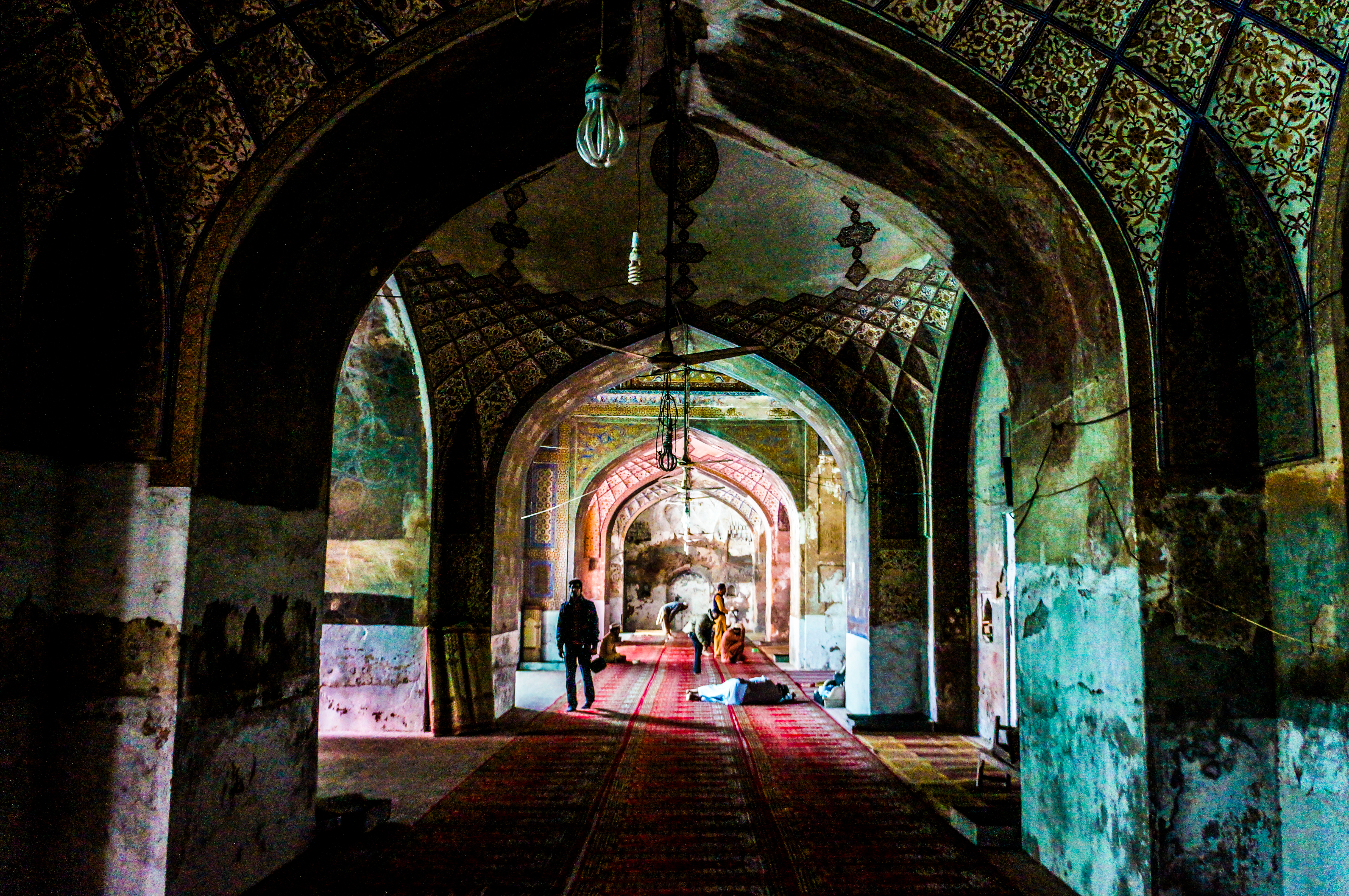 Inside view of the Mosque of Mariyam Zamani Begum This is a photo of a monument in Pakistan identified as the PB-68